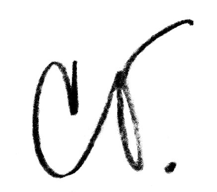 Pencil signature of Claes Oldenburg from 1990